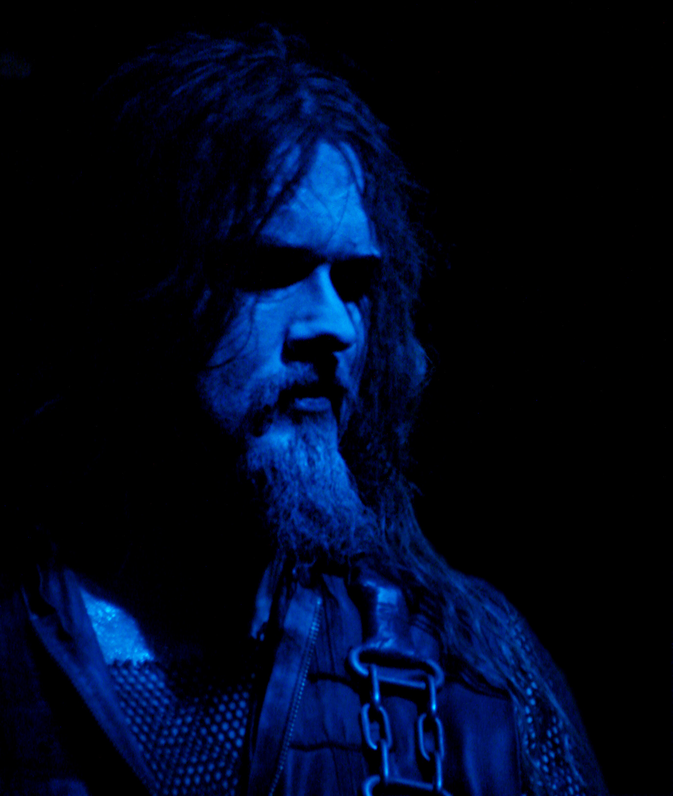 Dimmu Borgir,the Black Metal band from Norway, during their concert in Paris, the 4th of October 2007. Vortex.